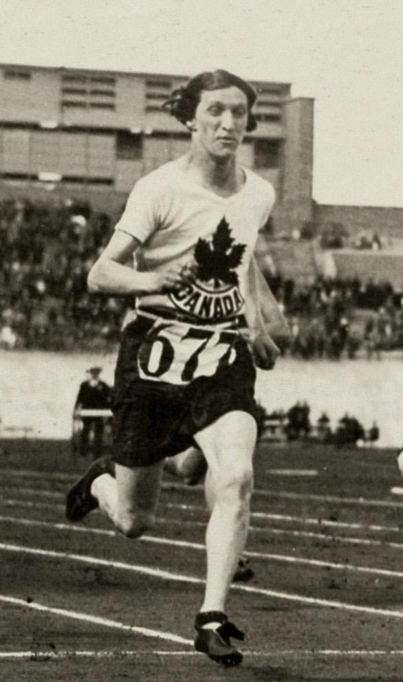 Bobbie Rosenfeld of Canada, perhaps at semi-final in the women's 100 meters at the 28th Summer Olympic Games in Amsterdam